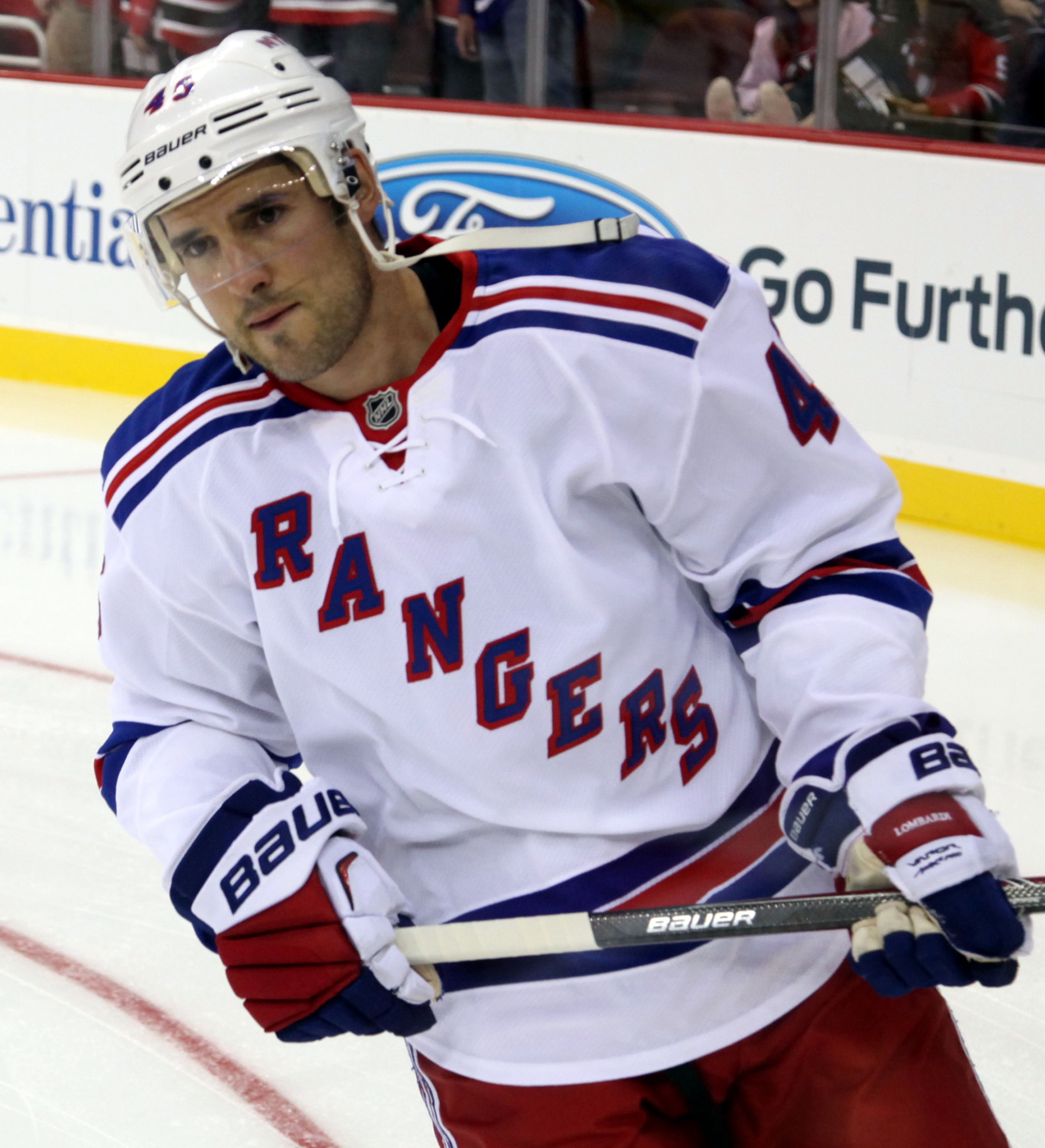 Lombardi as a Ranger in October 2014.